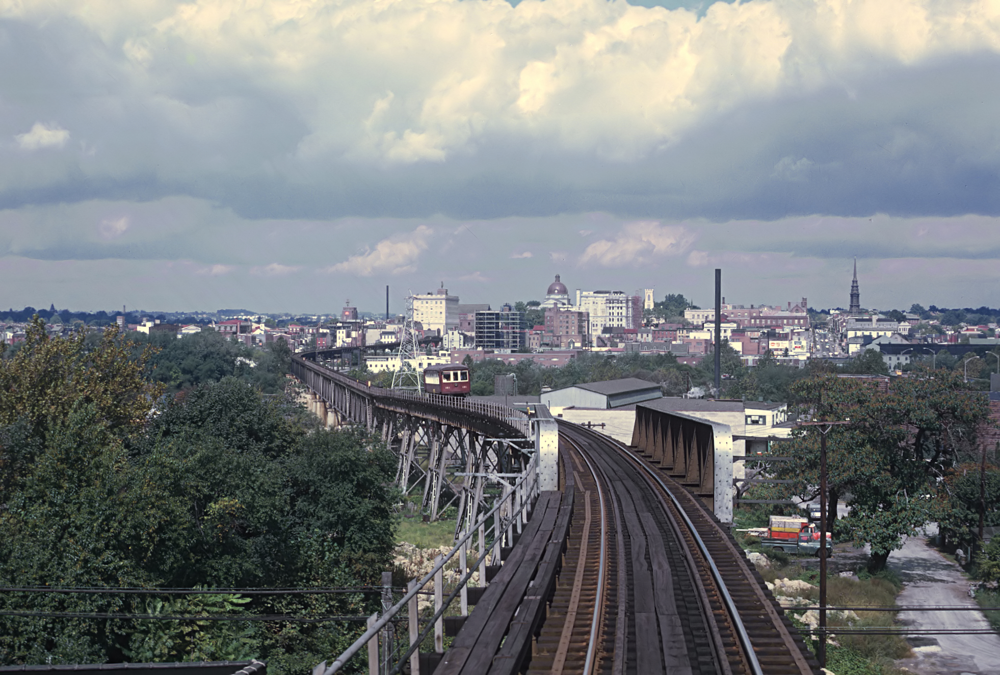 PSTC = Philadelphia Suburban Transportation Co. also known at the Red Arrow Lines A Roger Puta photograph